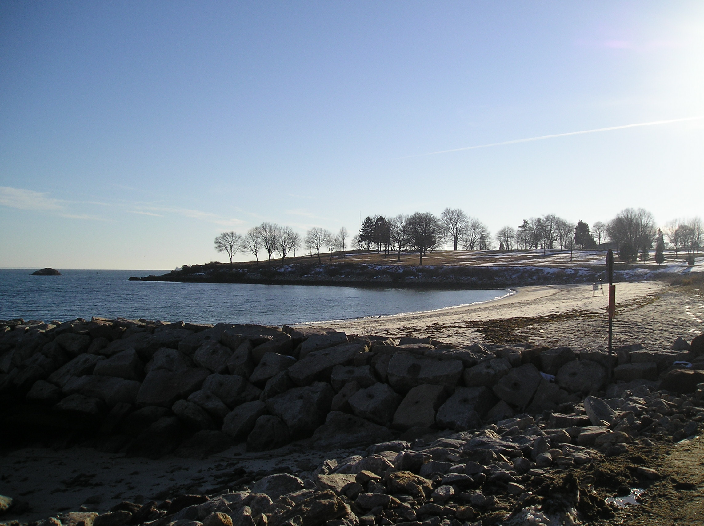 Hole in the Wall Beach in Niantic CT. Image taken looking westward towards the beach from the "Hole in the Wall," a pedestrian walkway under the Amtrak railroad tracks.